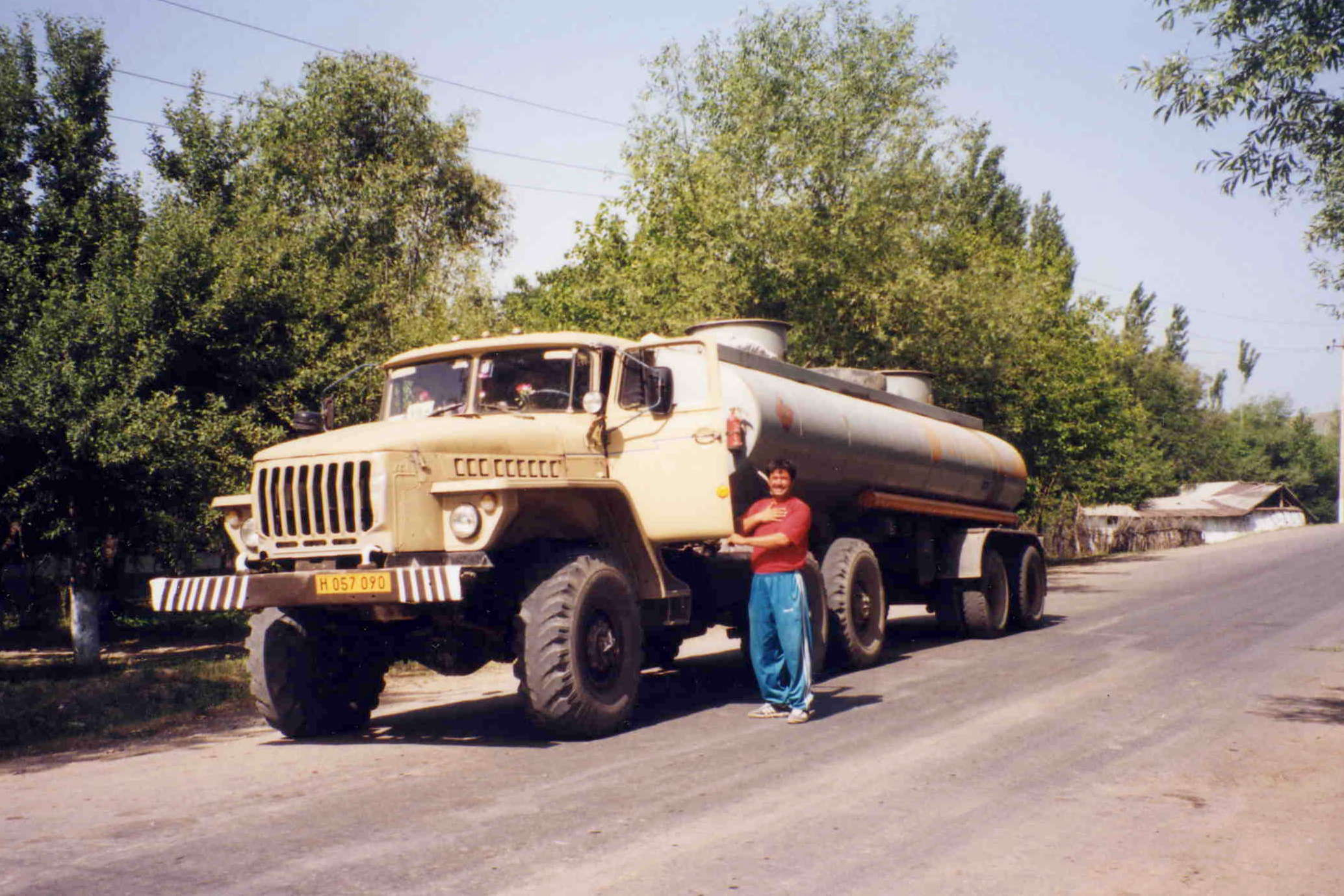 A Ural-4420 tank truck in Tajikistan.